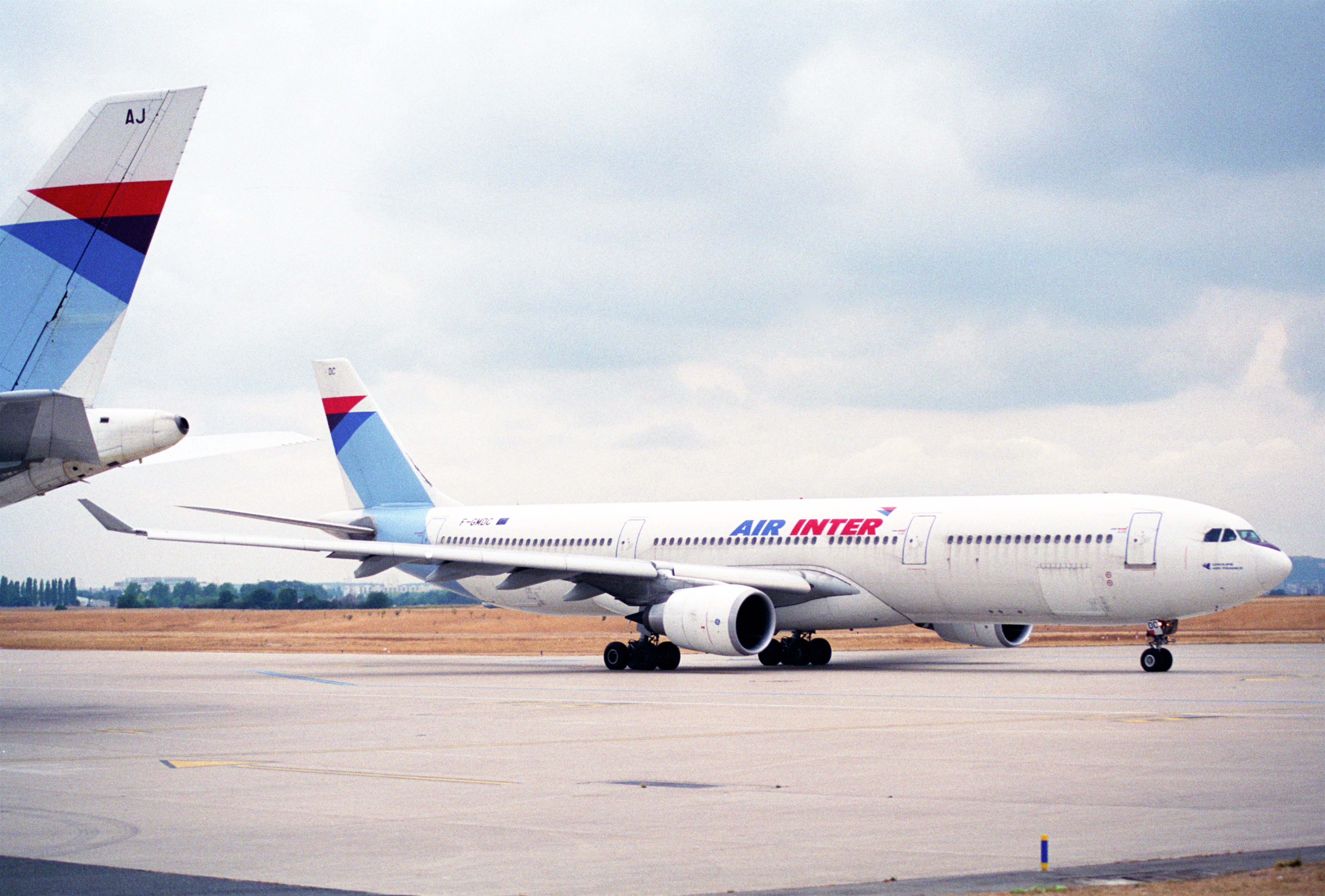 This A330-301 took its first flight on January 31, 1994...(c/n 45) 21/02/1994 Air Inter F-GMDC 12/11/1997 Sabena OO-SFO ceased operations on November 7, 2001, ferried to Chateauroux 18/01/02 22/04/2002 Birdy Airlines (SN Brussels) OO-SFO 01/10/2004 SN Brussels Airlines OO-SFO 25/03/2007 Brussels Airlines OO-SFO